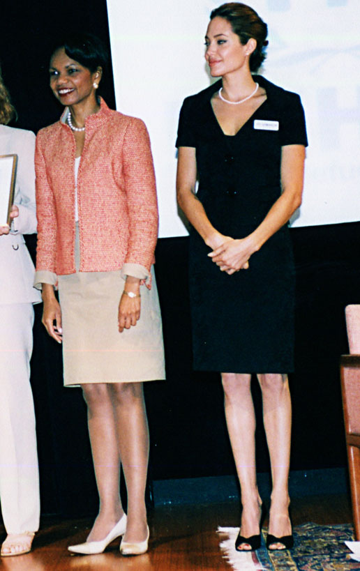 Angelina Jolie and Condoleezza Rice during the World Refugee Day at the National Geographic Society